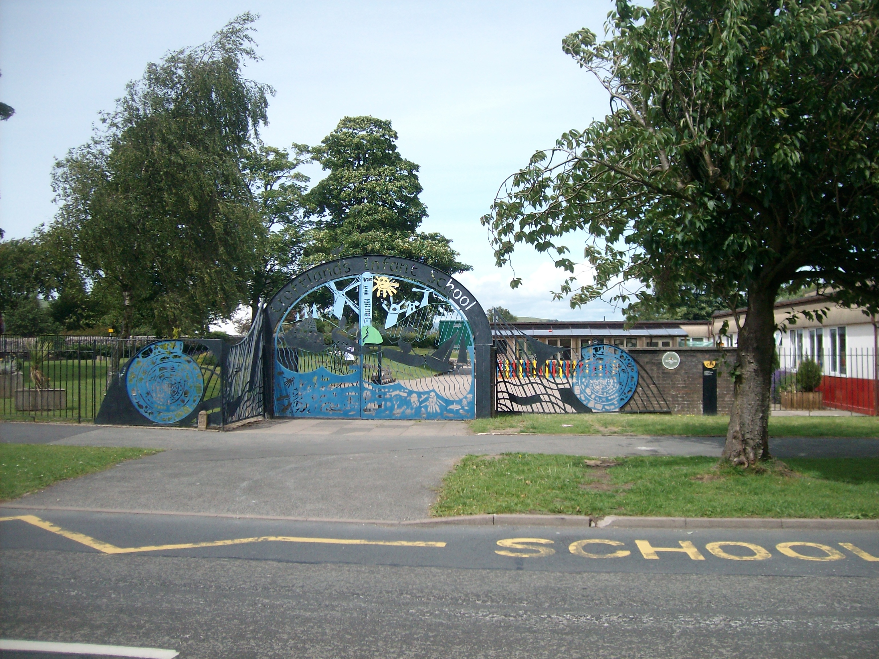 Croftlands Infant School, entrance. The junior school is adjacent to this.